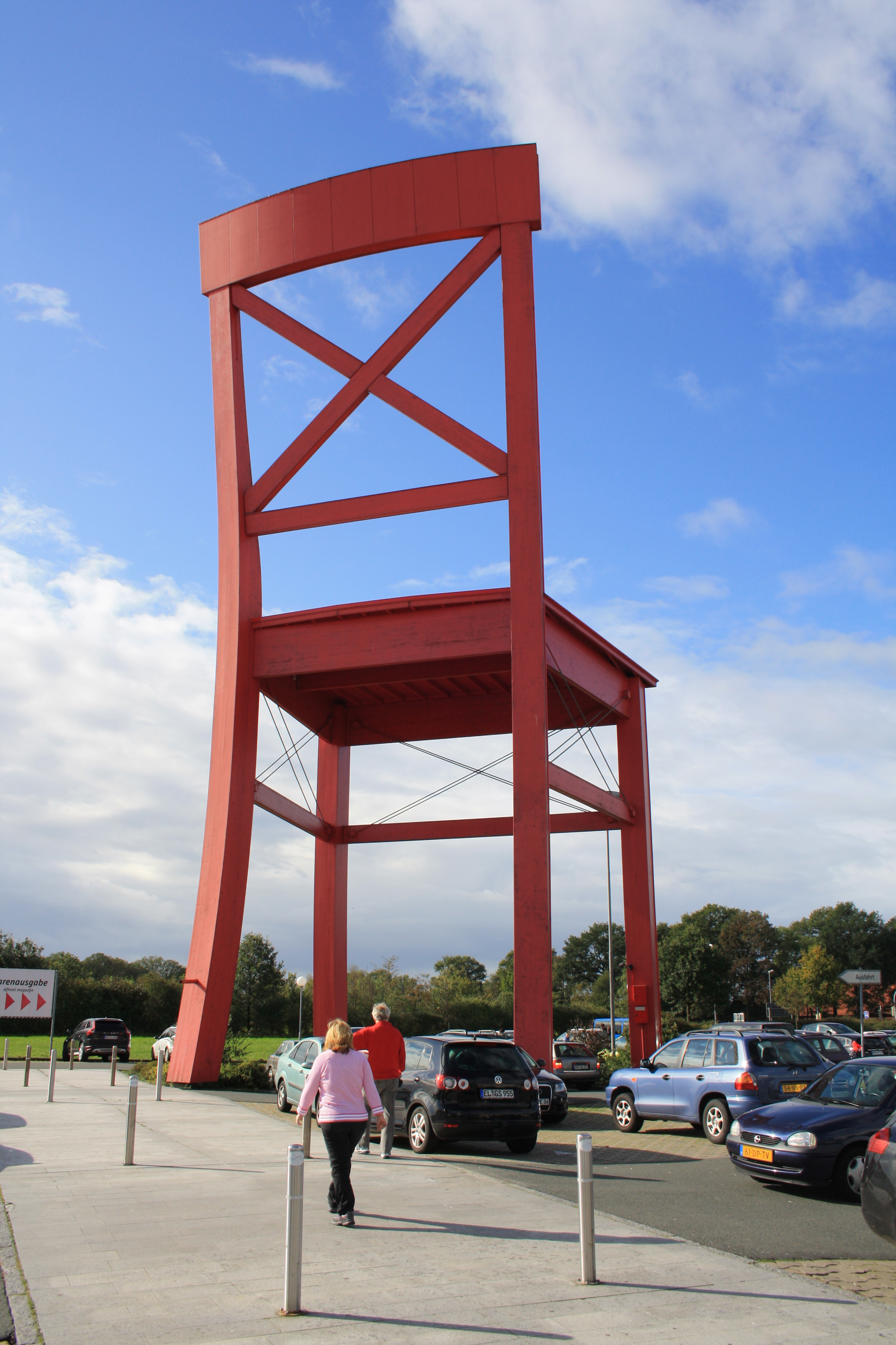 Big chair on the parkingplace of mall XXXLutz in Nordhorn (Ge)